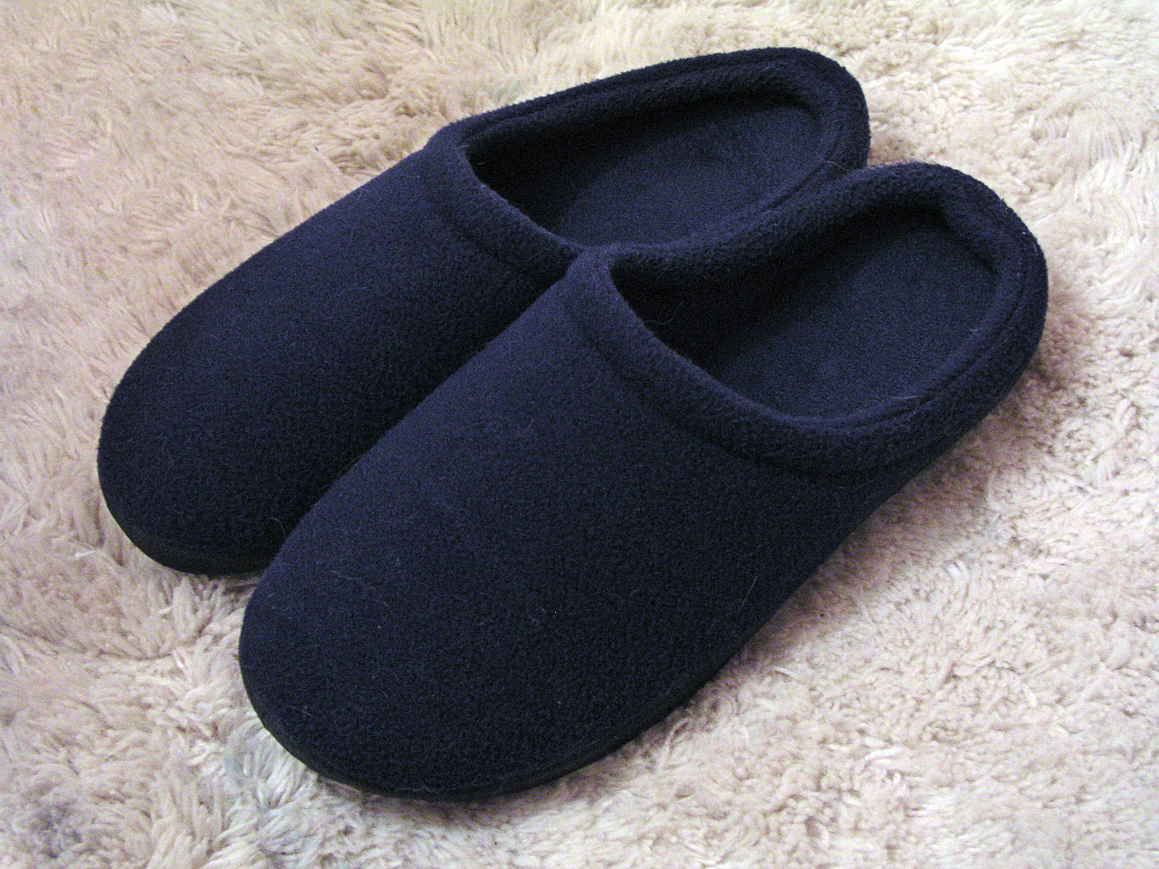 A pair of open-heeled slippers.